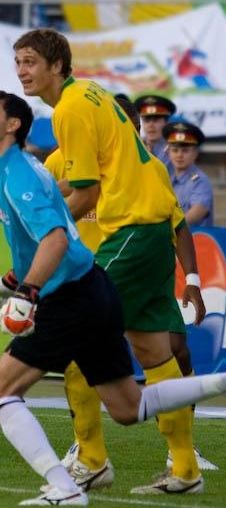 Aleksandr Orekhov in action for FC Kuban